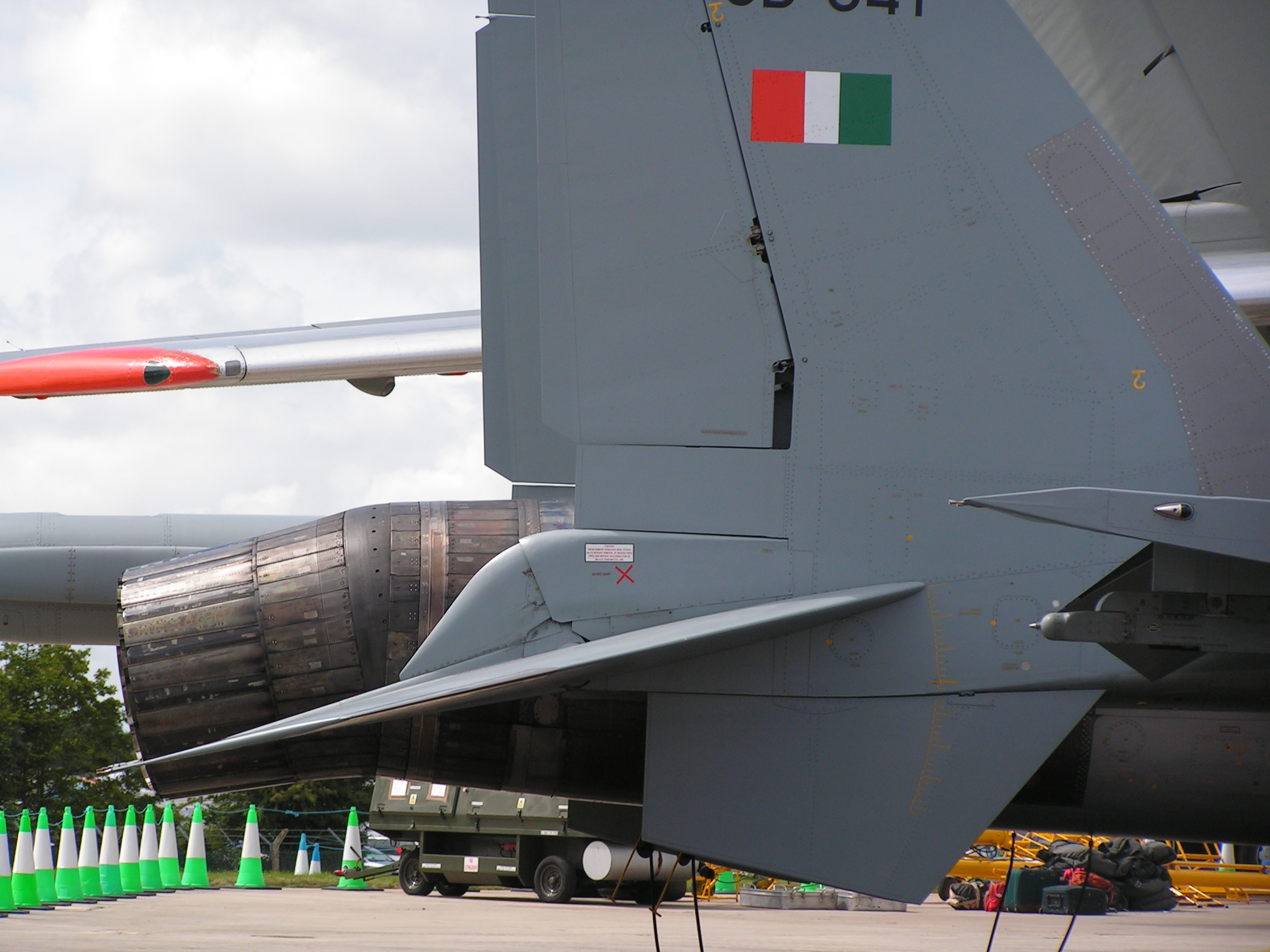 Tail section of the Su-30MKI the deflected nozzles and horizontal stabilizer.